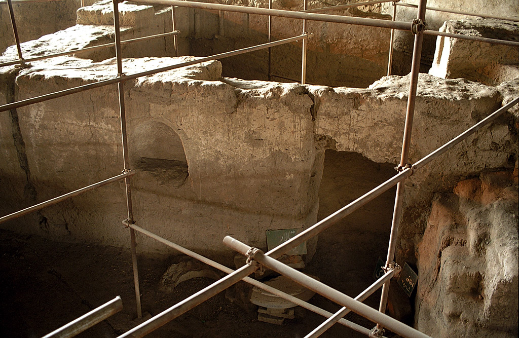 A house by the only currently excavated street on the tell of ancient Ecbatane, Hamadan, Iran.